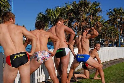 Wallabies wearing budgy smugglers